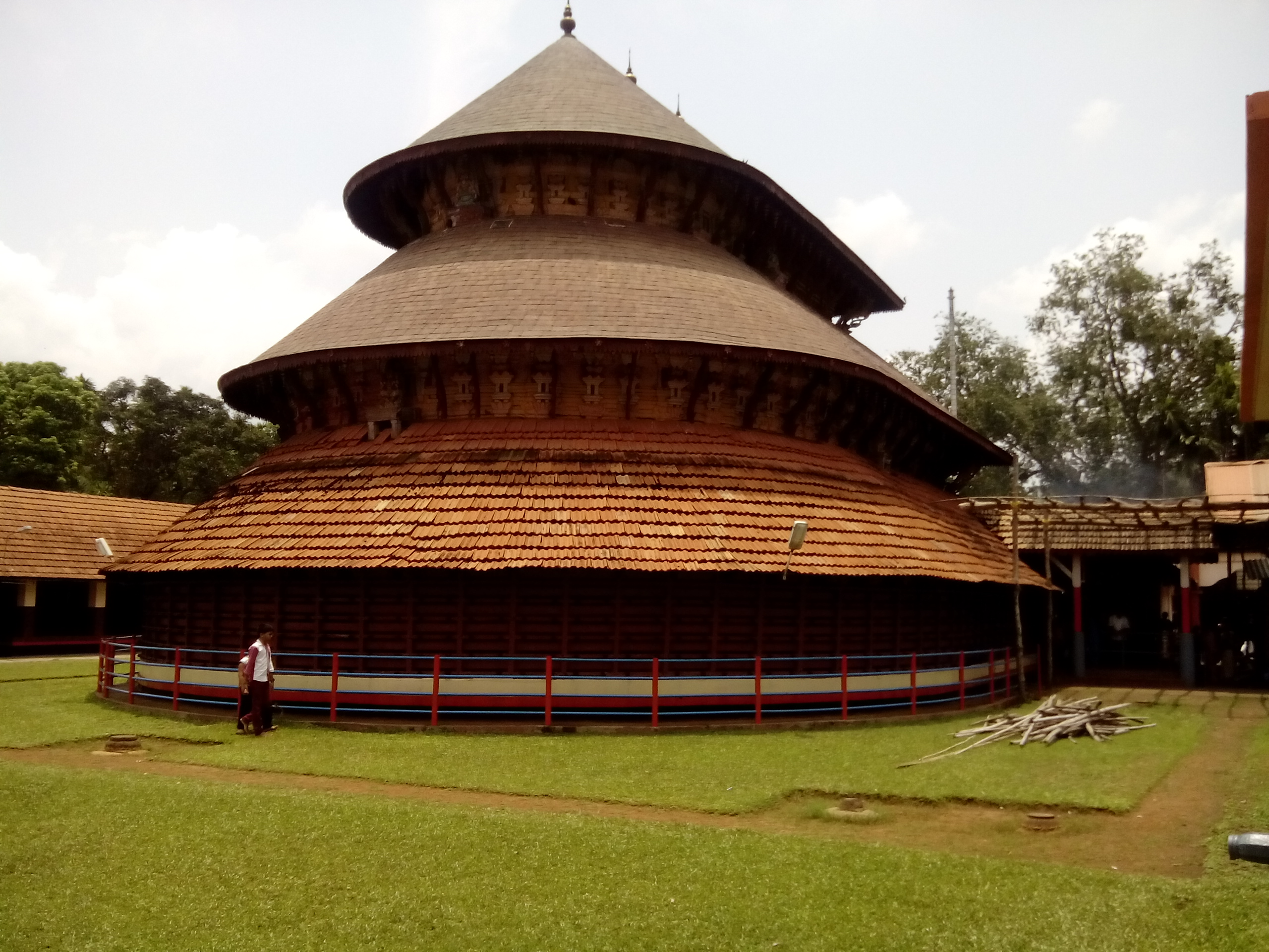 Madhur Temple, Kasaragod, Kerala